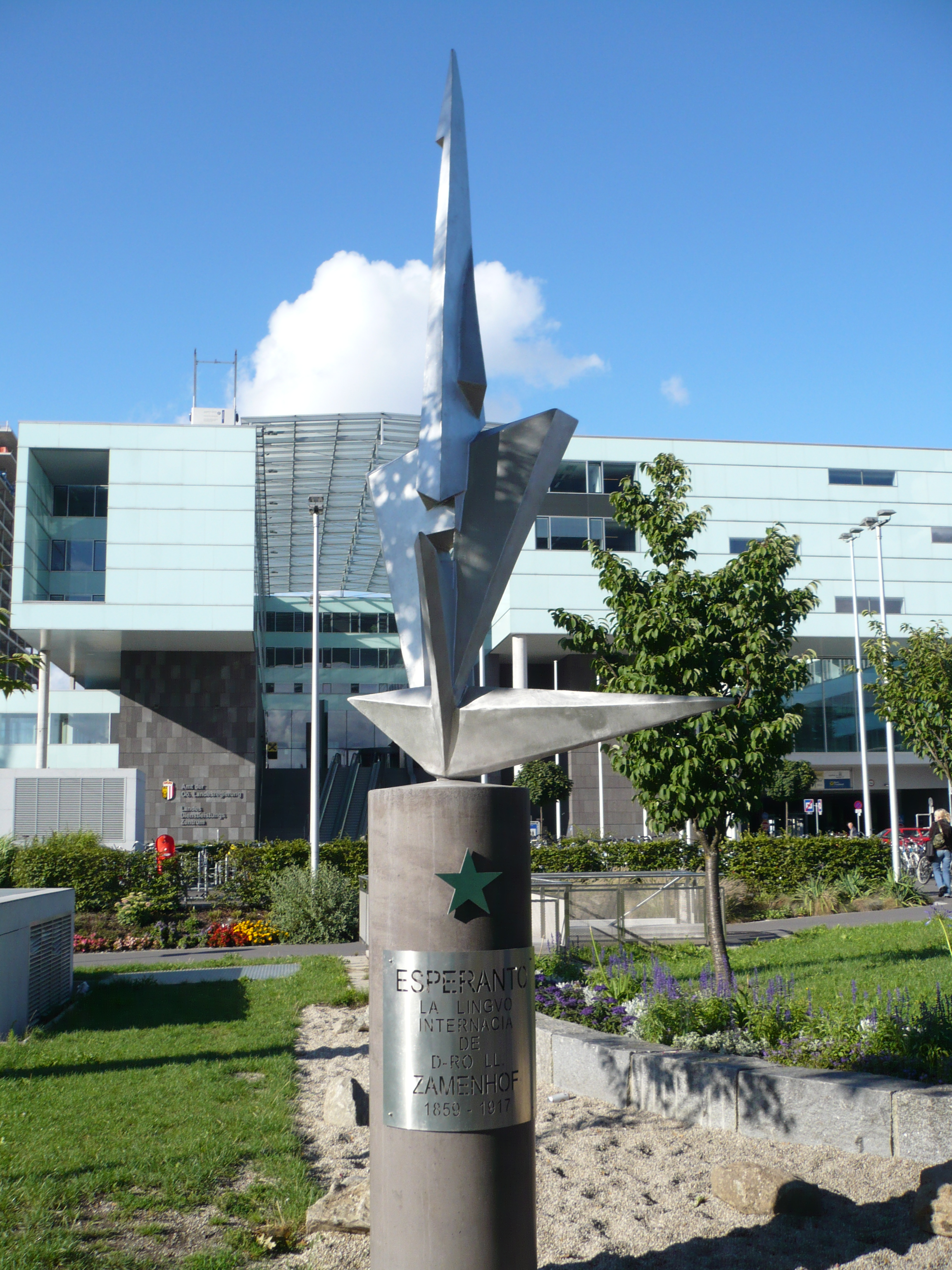 Outside the Linz Hauptbahnhof, there is a statue dedicated to Esperanto and it's founder, Zamenhof.